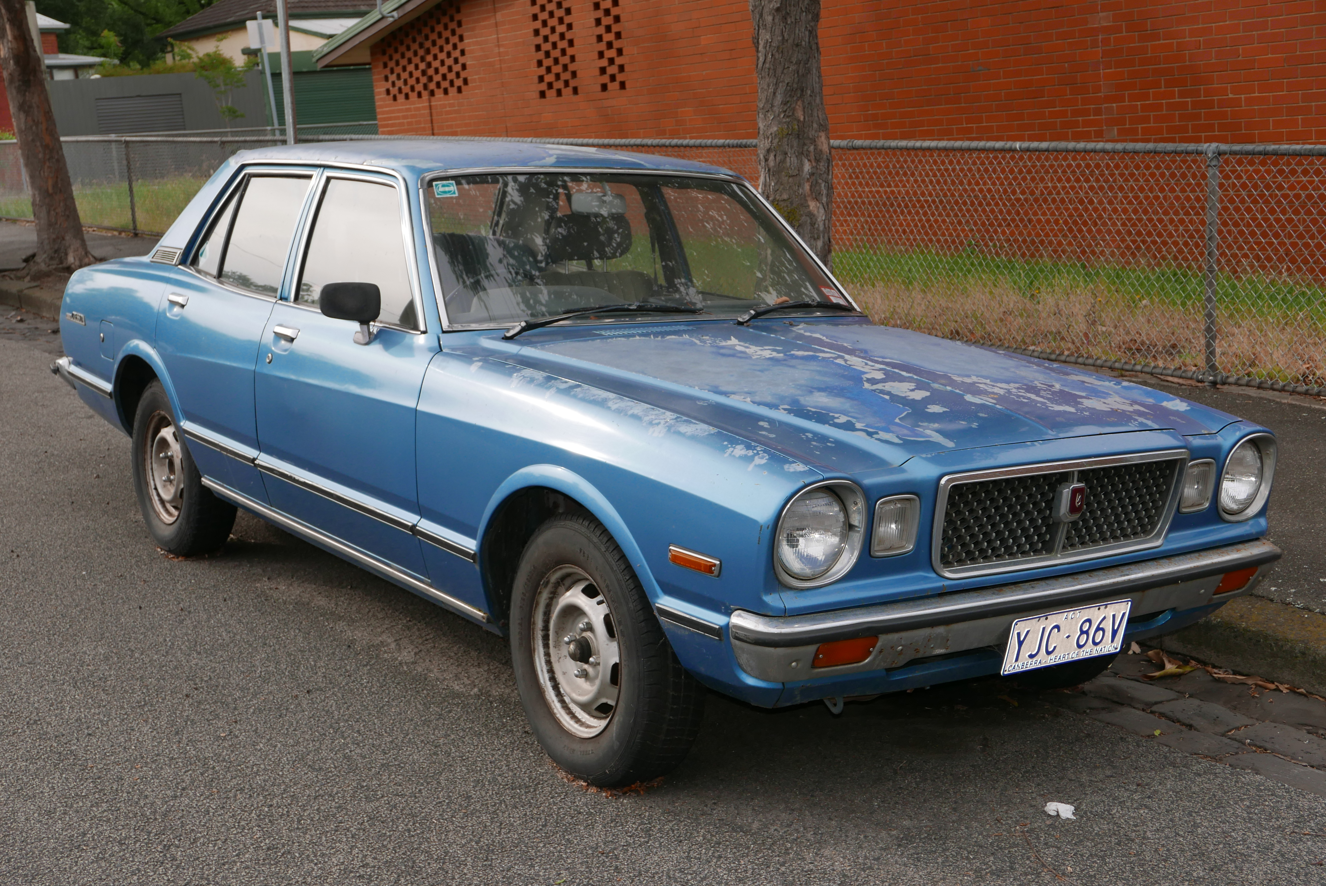 1977–1980 Toyota Cressida (MX32R) sedan. Photographed in Flemington, Victoria, Australia.